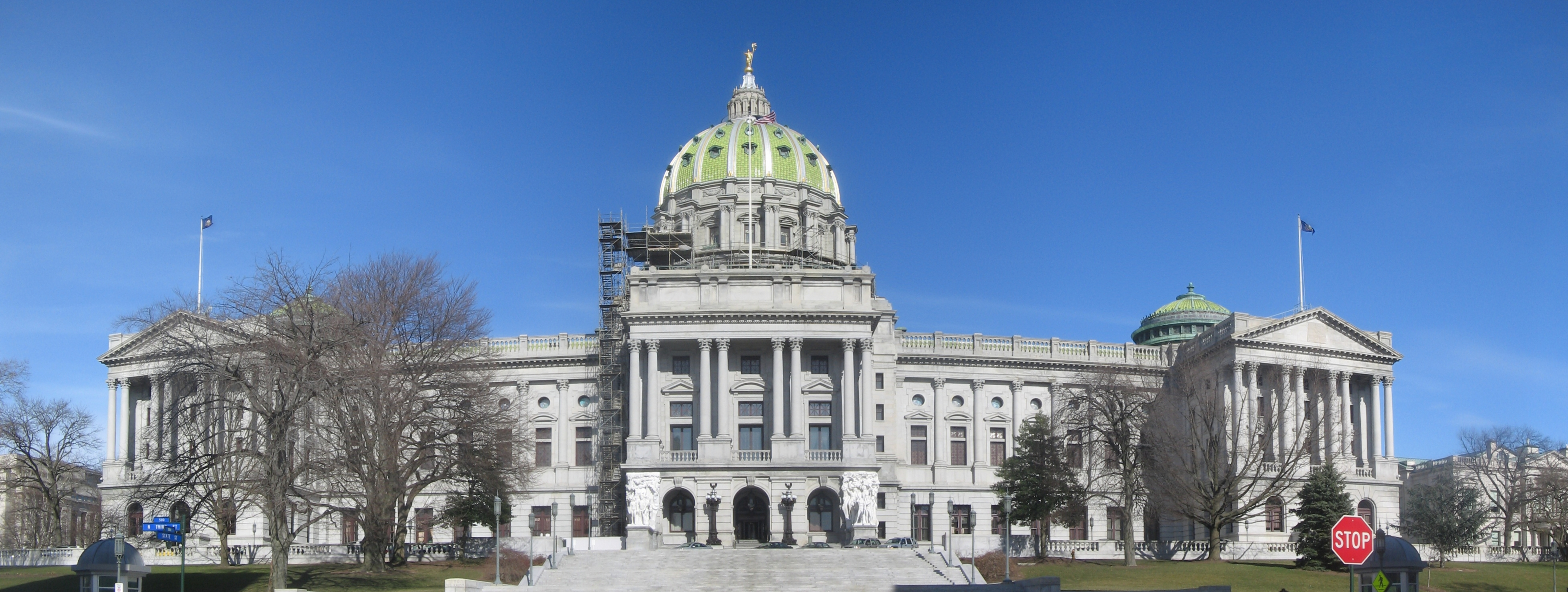 Panorama of the front of the Pennsylvania State Capitol in Harrisburg, Pennsylvania, USA